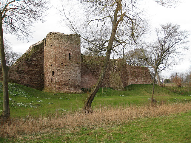 Winter view of Wilton Castle